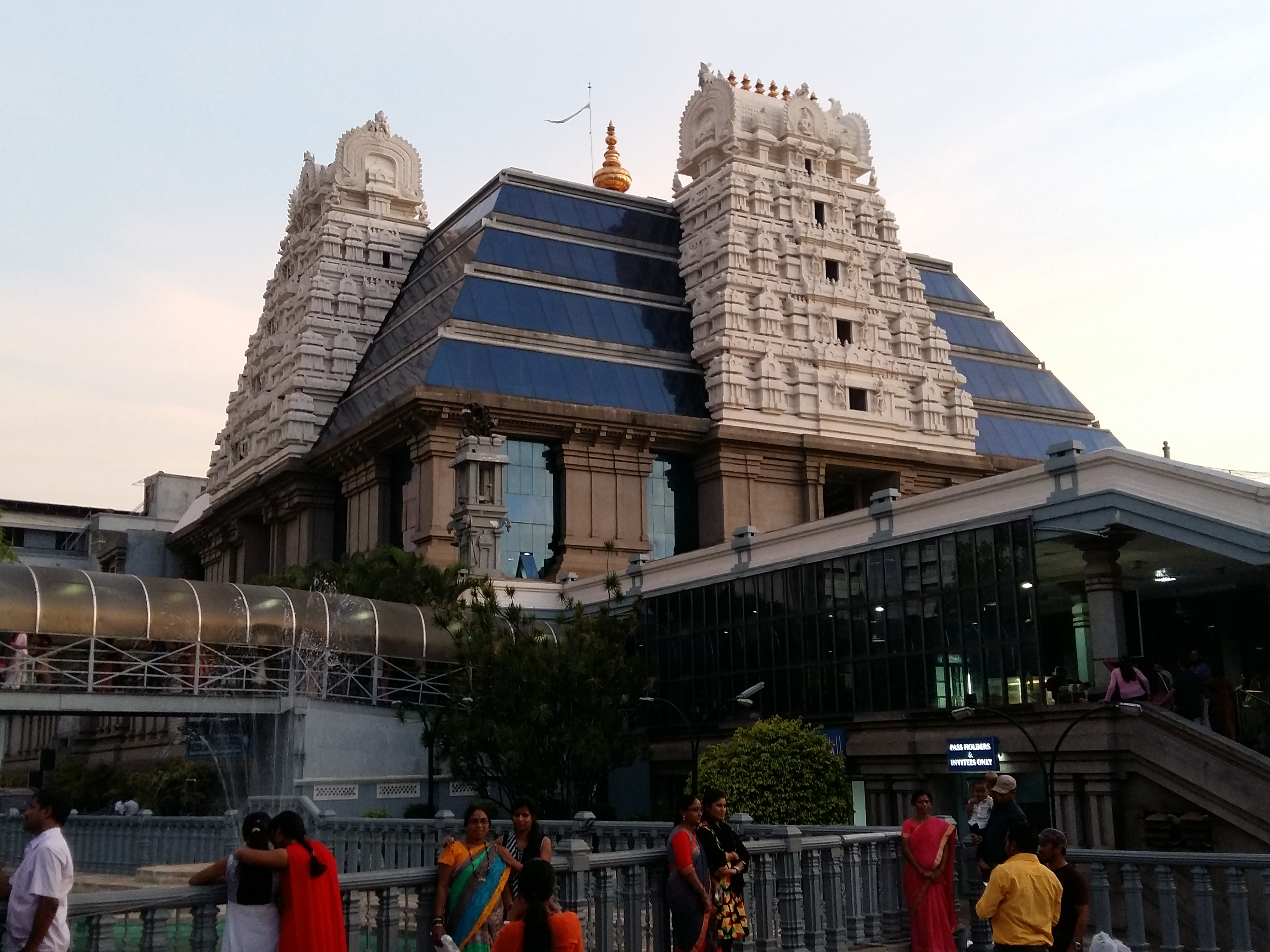 ISKCON Sri Radha Krishna Temple Is Recognized As One of The most visited Places in Bengaluru